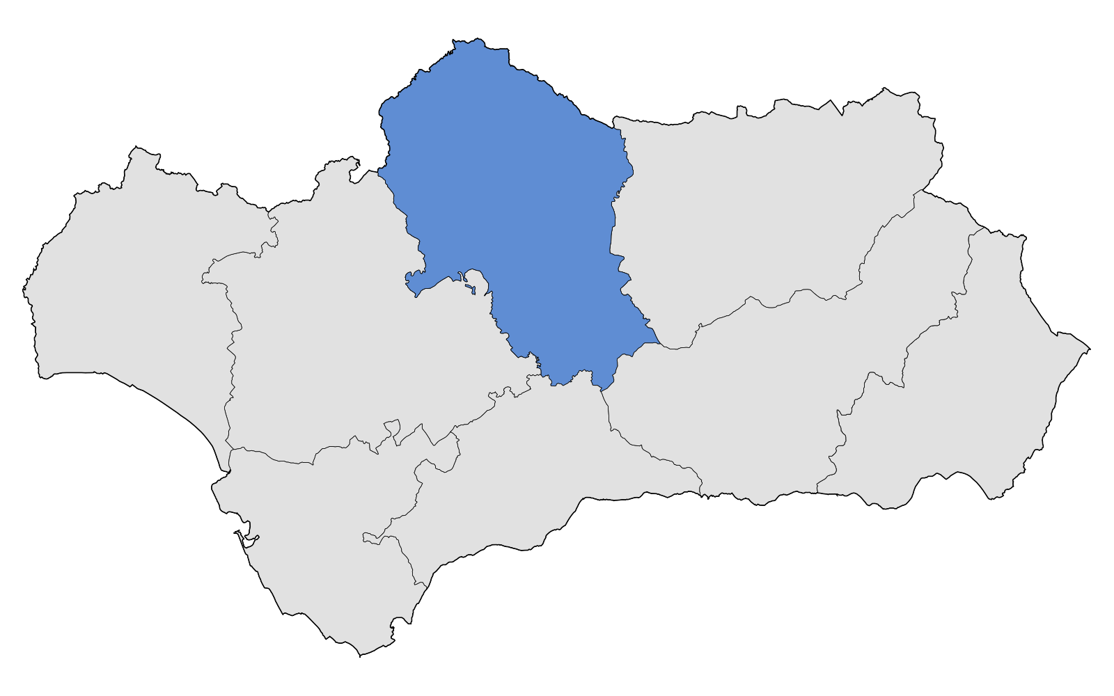 Map of province of Córdoba in relation to Andalusia